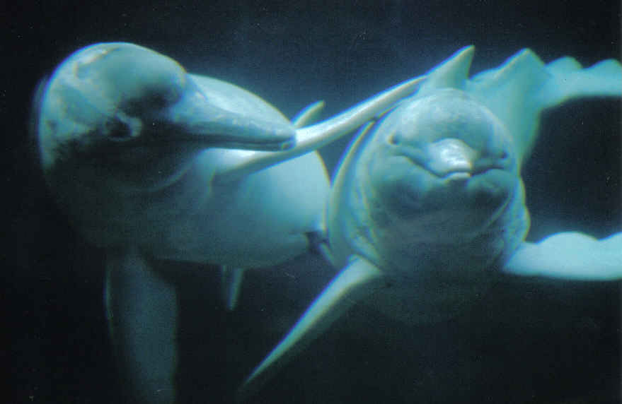 Apure (* ca. 1957; † 9. Oktober 2006 in Duisburg), here with his fellow Orinoko (left, * c. 1973), was a male Boto (Inia geoffrensis), which lived in the Duisburger Zoo. Apure died as eldest known Amazon River Dolphin with more than 40 years (estimated)